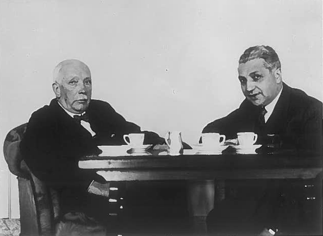 Richard Strauss and Lothar Wallerstein, subsequent to their collaboration on the revision of Mozart's Idomeneo during 1931.